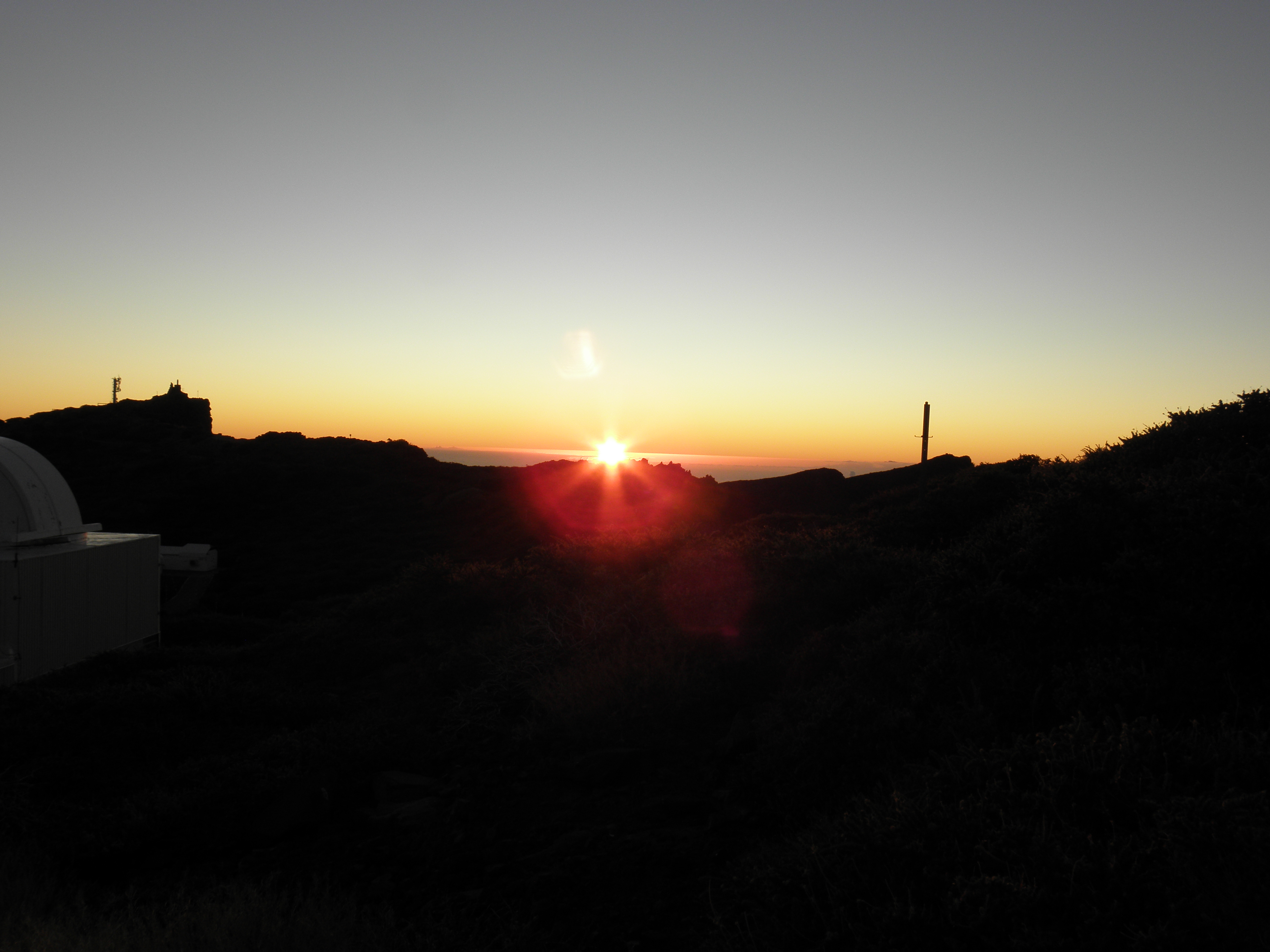 Sunrise at the Swedish Solar Telescope at La Palma.